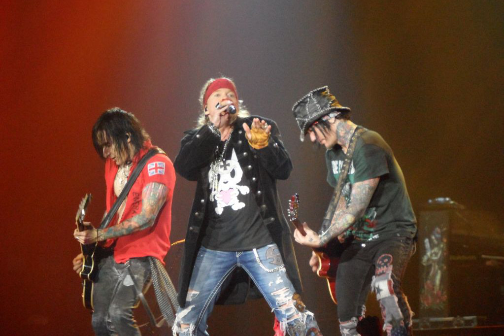 Guns N’ Roses performing at Nottingham Arena, Nottingham, UK, on 22 May 2012.